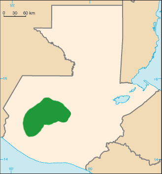 location of the k'iche kingdom within Guatemala